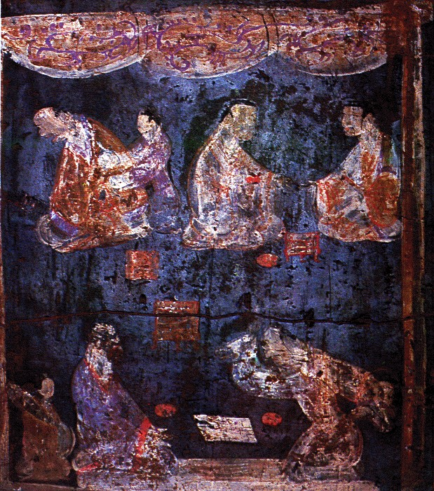 Detail of a mural from an Eastern Han tomb at Zhucun 朱村, Luoyang 洛陽, Henan province. The two figures in the foreground are playing Liubo, with the playing mat between them, and the Liubo board to the side of the mat. The two red, circular objects next to the liubo board are probably intended to represent lacquer wine cups. The player on the right is taking his turn, with his right hand raised up as if about to throw down the six throwing sticks. The mural is coloured using "Han Blue" and "Han Purple" pigments.